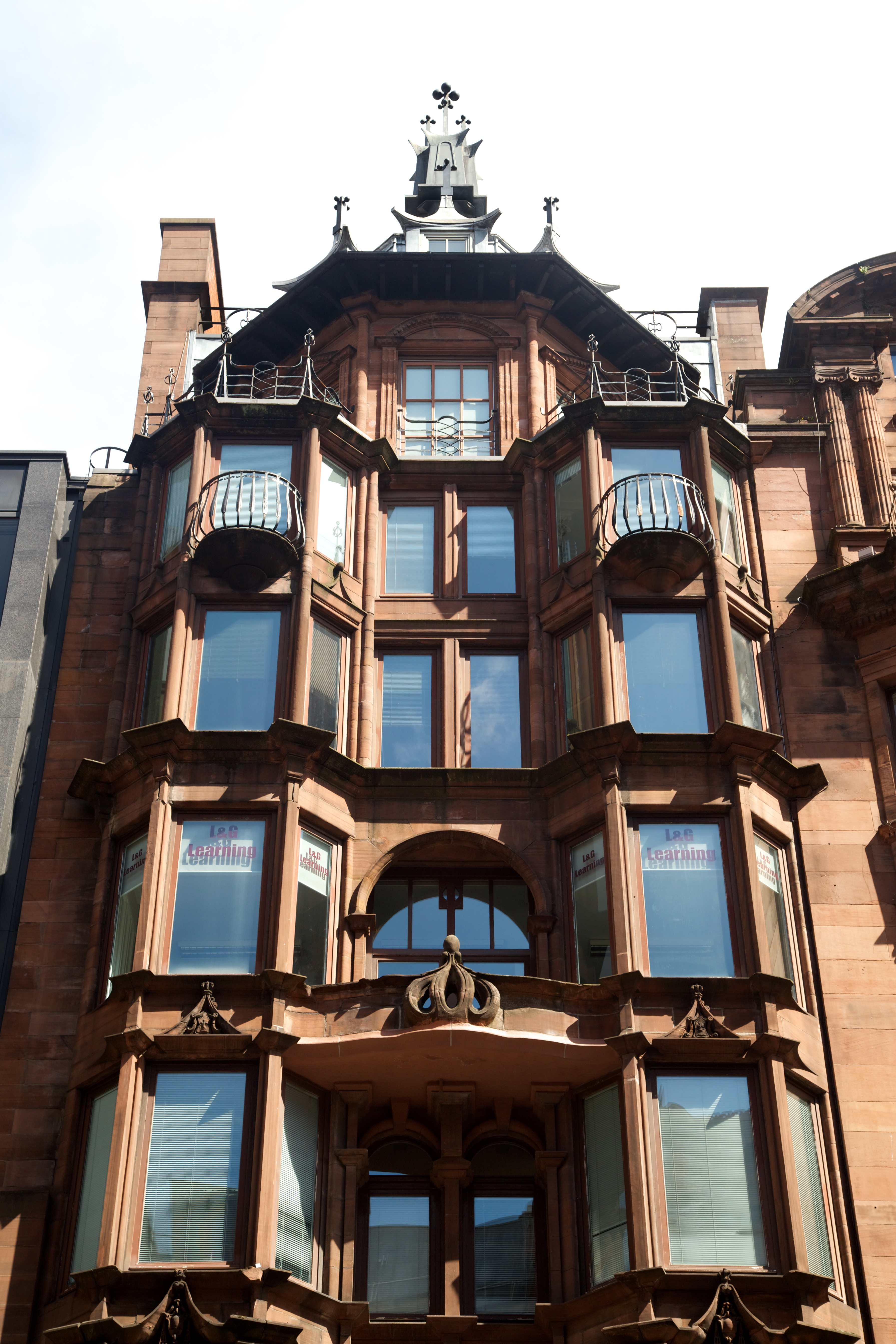 142a, 144 St Vincent Street, The Hatrack Wikidata has entry Q17568622 with data related to this item.